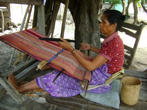 Tais weaving Loom - Com